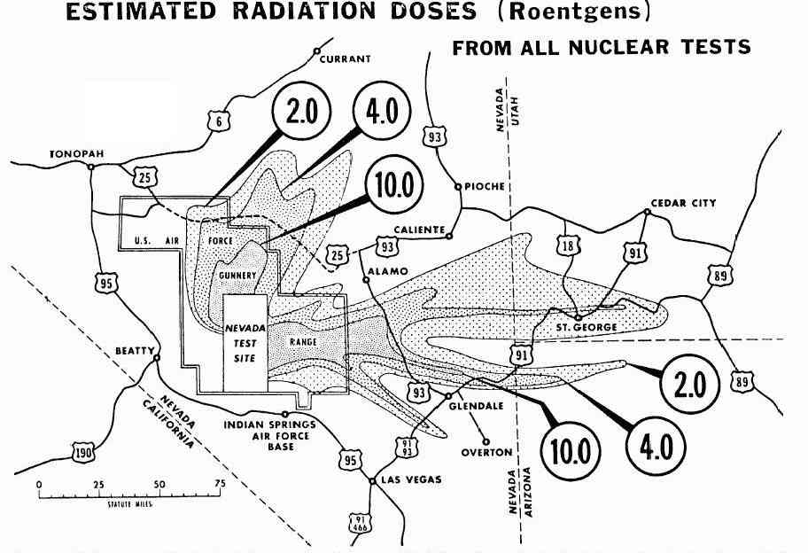 1950-57 fallout outdoor gamma doses offsite from Nevada nuclear tests. From U.S. Congressional Hearings before the Special Subcommittee on Radiation of the Joint Committee on Atomic Energy, The Nature of Radioactive Fallout and Its Effects on Man, 27 May - 3 June 1957, page 195. Discussion:[1]